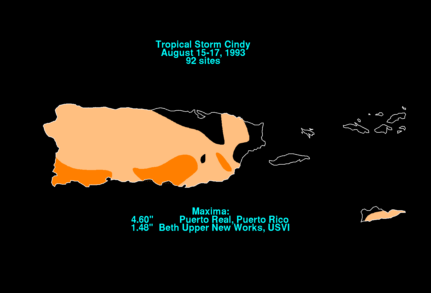 Storm total rainfall map of Tropical Storm Cindy during August 1993.